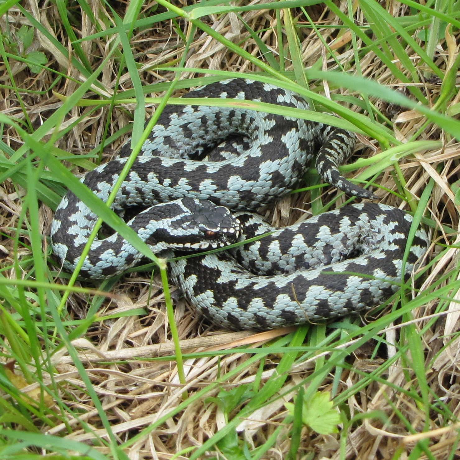 Adder, Crossed Viper